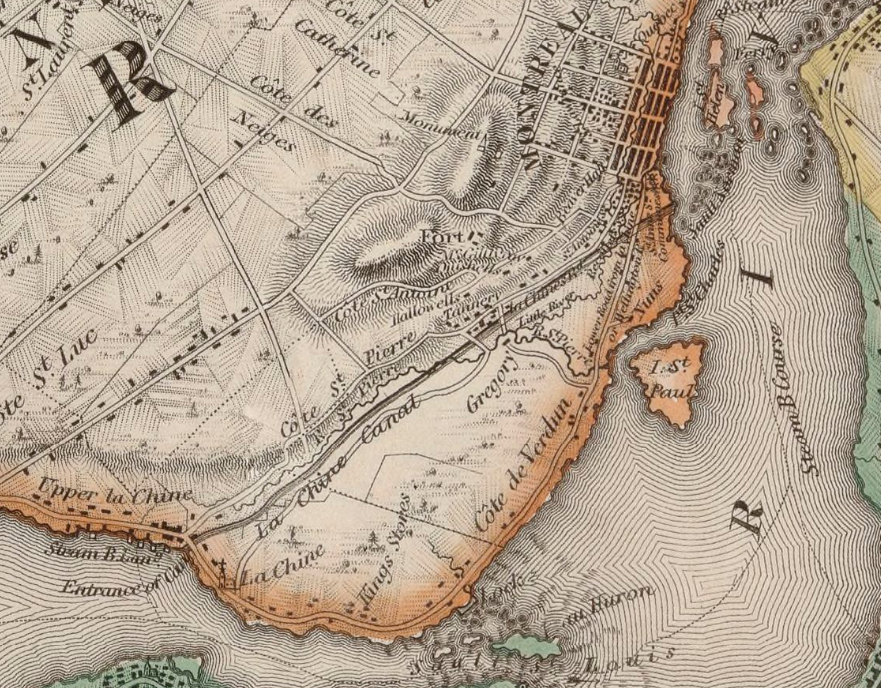 To His Most Excellent Majesty King William IVth this Topographical Map of the District of Montréal, Lower Canada, Exhibiting the New Civil Division of the District into Counties pursuant to a recent Act of the Provincial Legislature ; also a large section of Upper Canada, traversed / by the Rideau Canal. Is with His Majesty's Gracious and Special Permission most humbly and gratefully dedicated by... Joseph Bouchette, His Majesty's Surveyor General of the Province... Scale of Miles 16[=Om. 148 ; 1 : 174 000 environ] ; Engraved by J. & C. Walker